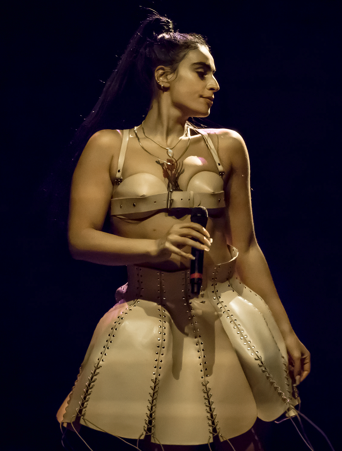 Sevdaliza performing live at The Novo DTLA on her "The Wanderess World Tour", in downtown Los Angeles, California, on Friday, February 23, 2018. Shot for Pass The Aux .